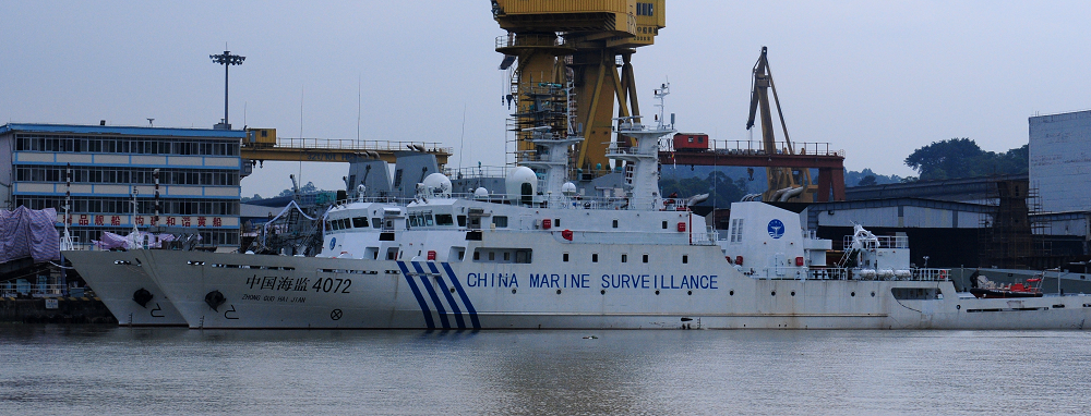 China Marine Surveillance Haijian 4072 ship